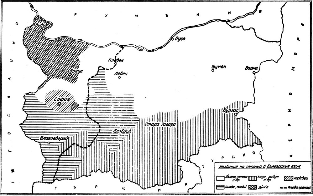 Map showing the names of melon in Bulgarian speech.